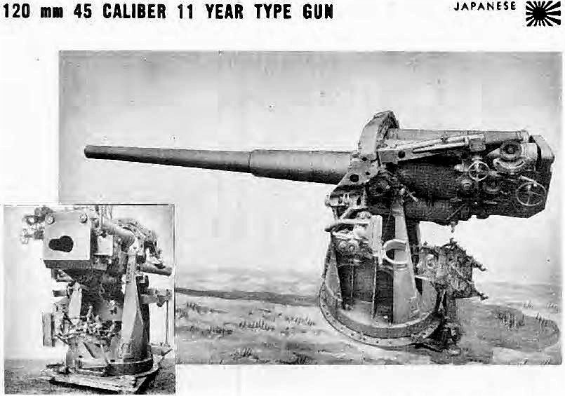 12 cm L/45 11th Year Type naval gun